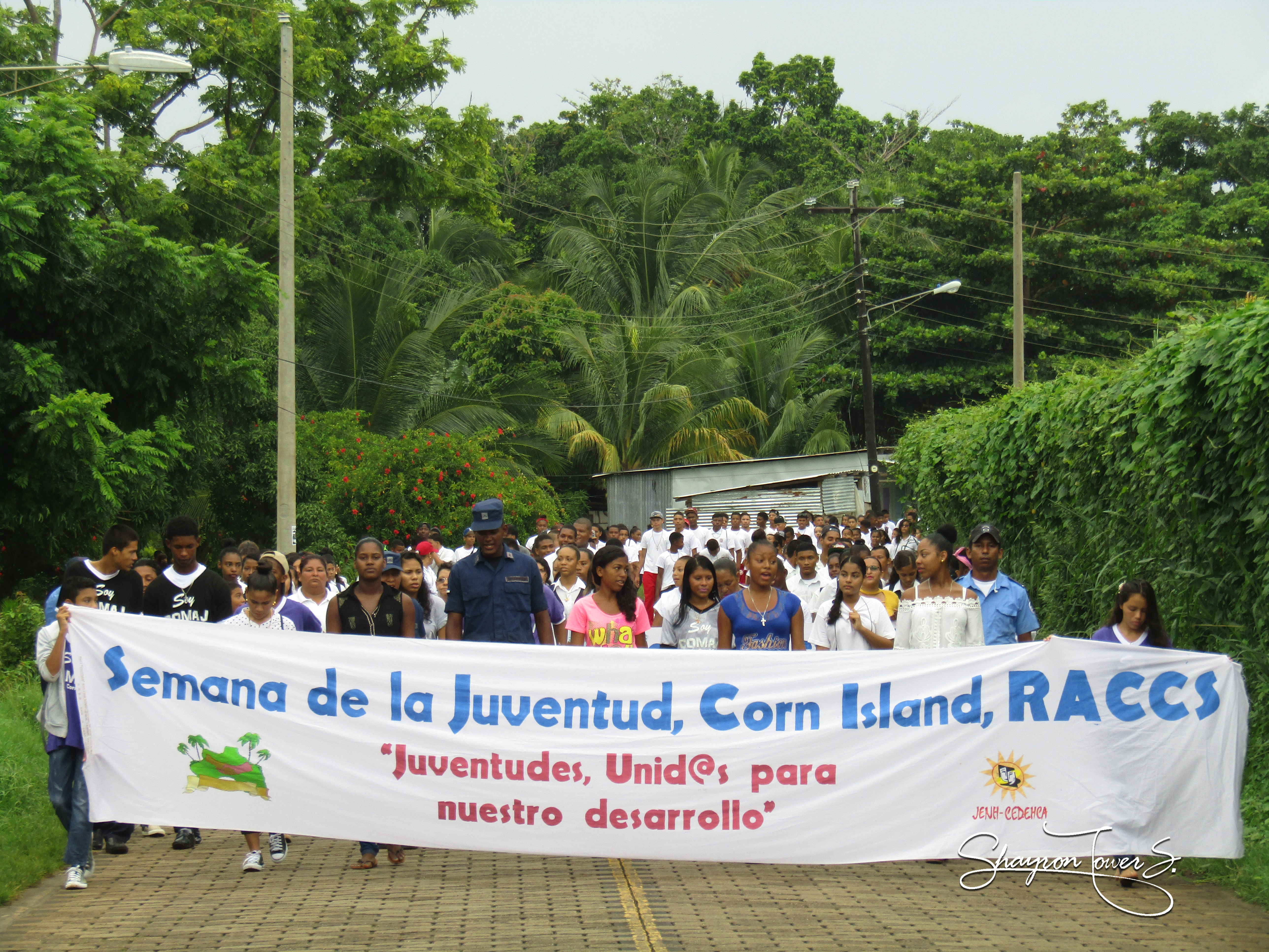 Desfile Semana de la Juventud 2016.